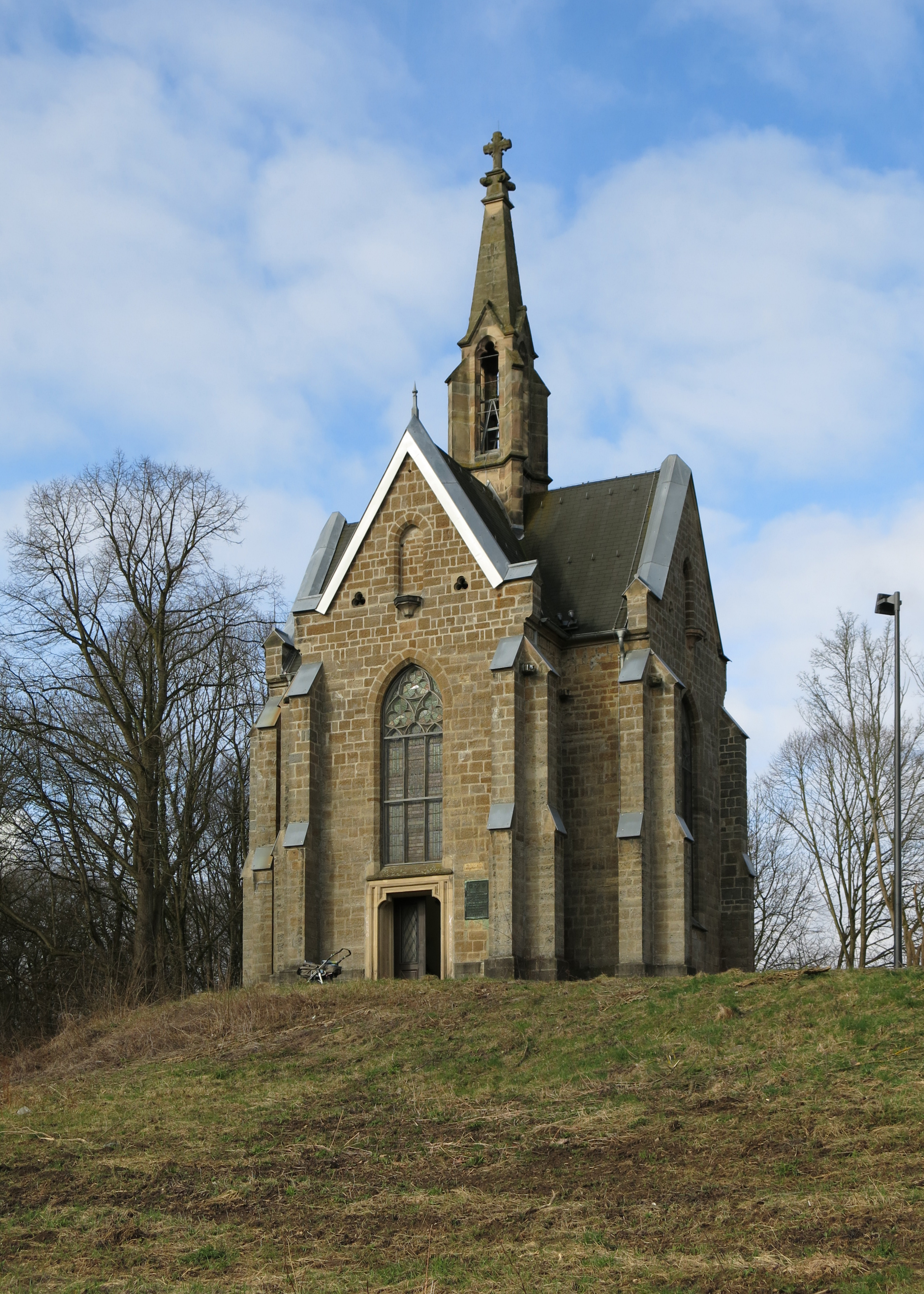 The chapel on the Kreuzberg near Arnsberg.